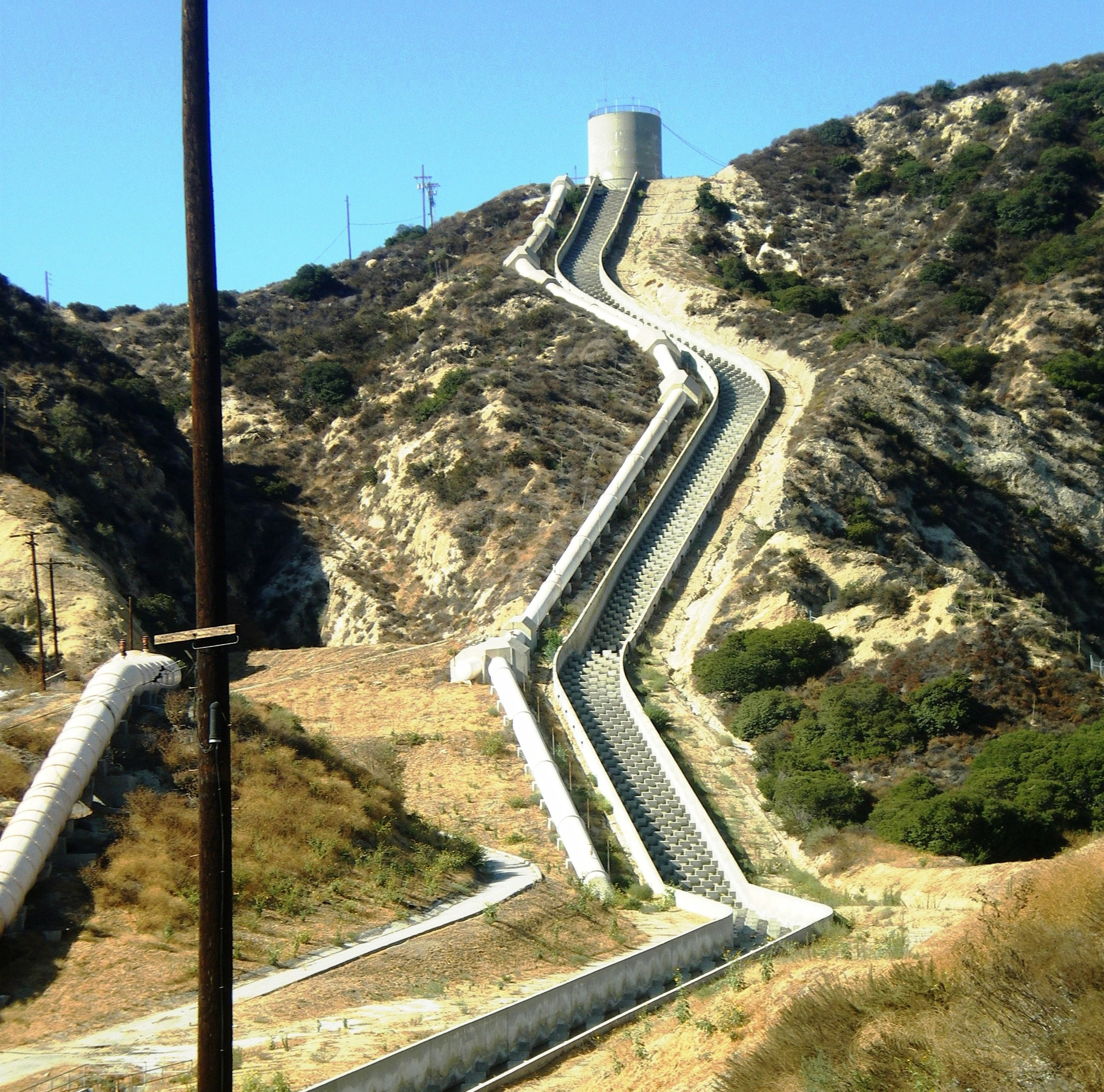 The Second Los Angeles Aqueduct Cascades, located in Sylmar, just east of the I-5 Freeway near Newhall Pass, in the San Gabriel Mountains foothills of the northeastern San Fernando Valley. The Cascades are the terminus of the Los Angeles Aqueduct, which brings water 338 miles (544 km) from the Owens Valley to Los Angeles. Construction of the aqueduct began in 1908 and completed in 1913. The cascades are a Los Angeles Historic-Cultural Monument (HCM #742), a California Historical Landmark (#653), and a Historic Civil Engineering Landmark.